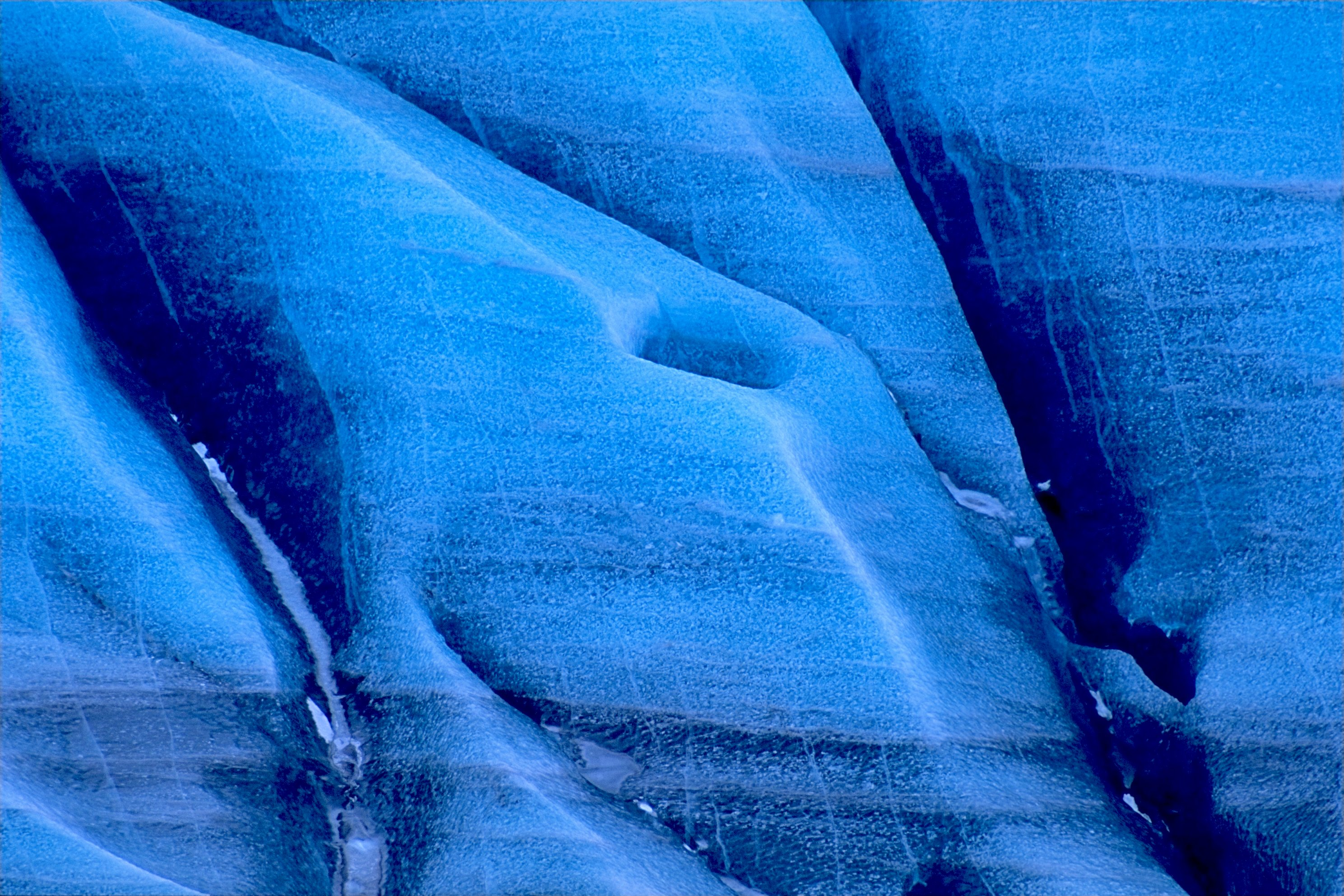 Vatnajökull in national park Skaftafell (Detail), Iceland Photo was taken using the following technique: Film: Fuji Velvia Lens: 4/70-210 Filter: none Body: Minolta 7 Support: Manfrotto 190B Image with Information in English Bild mit Informationen auf Deutsch